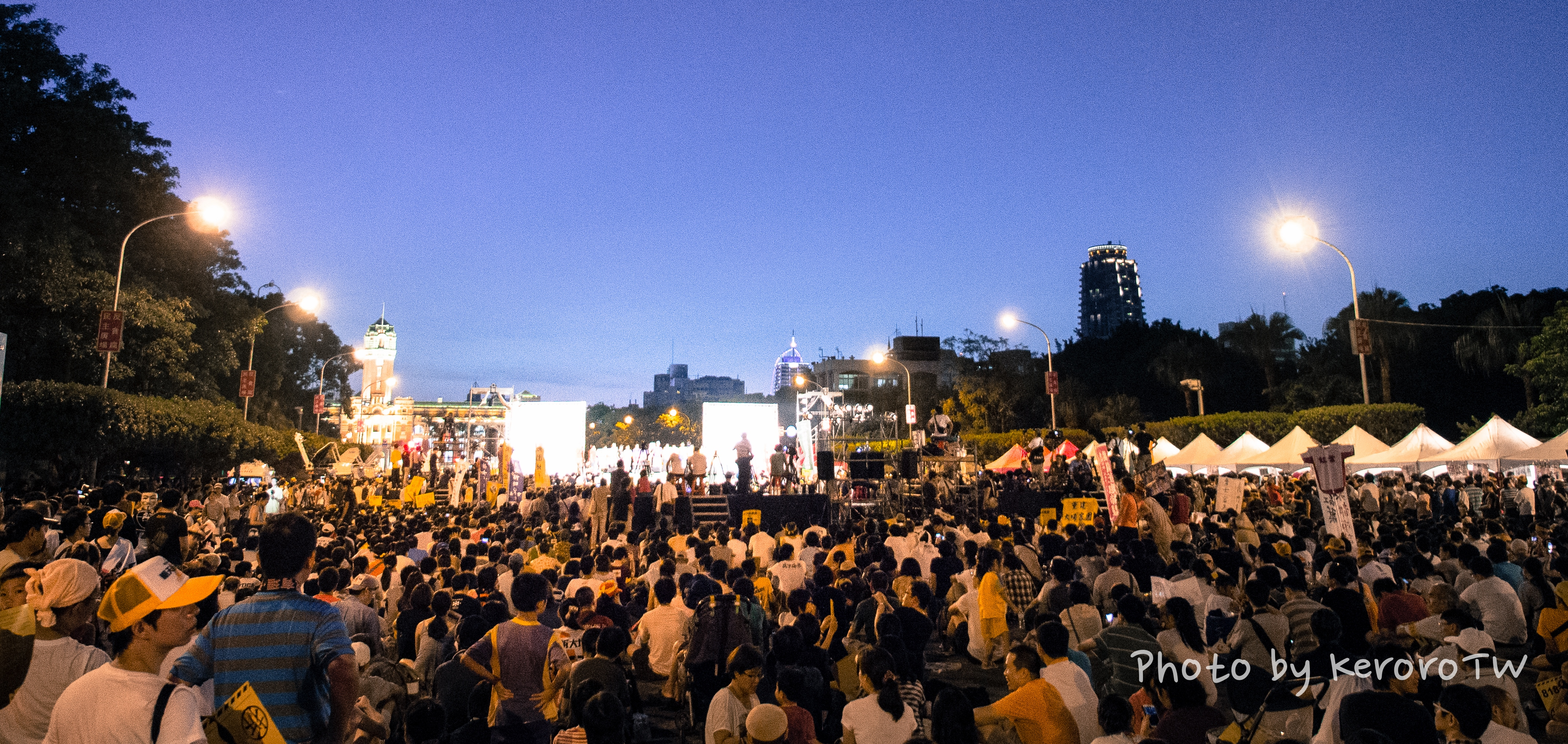 生存/公平/正義